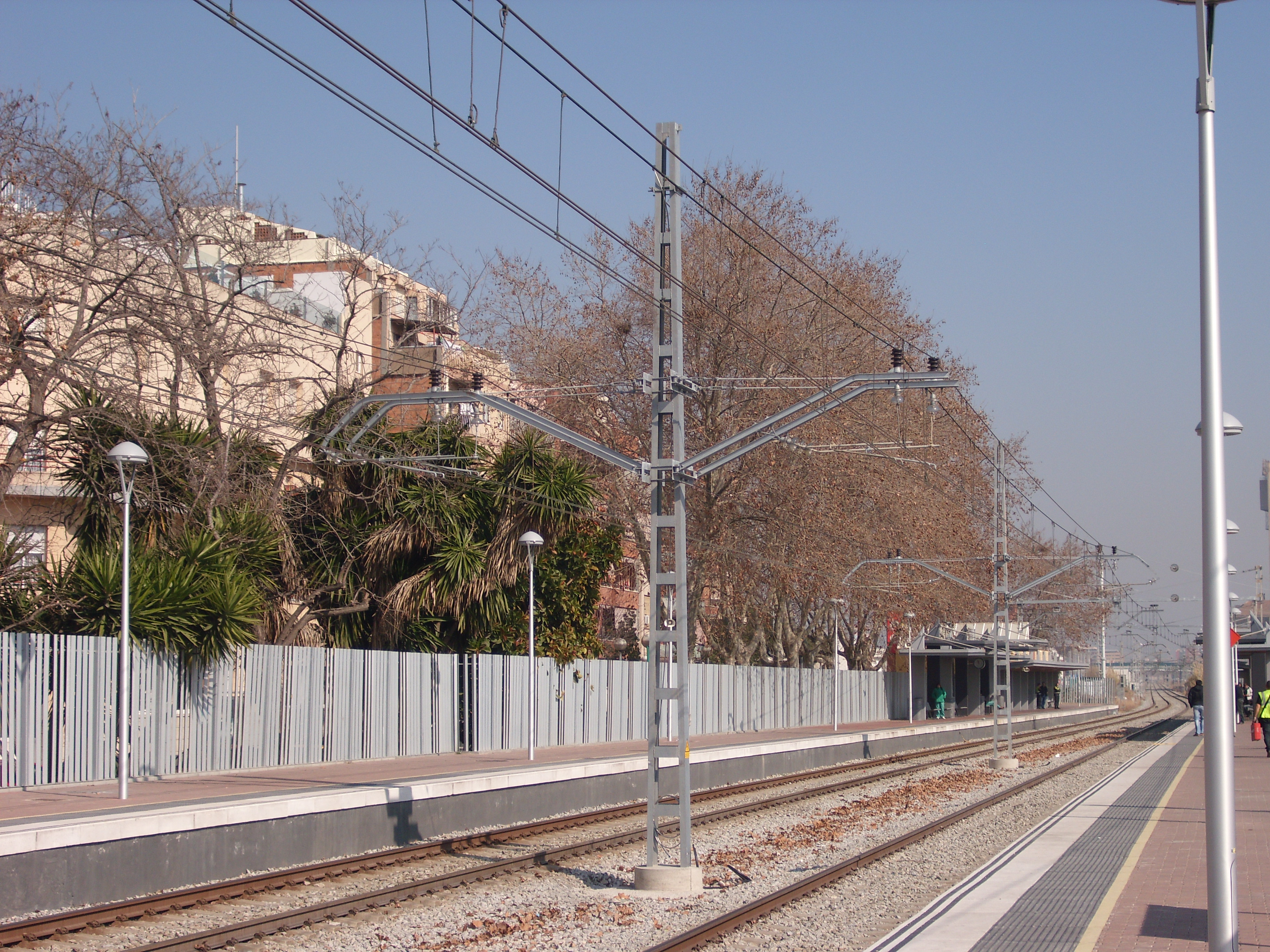 Overhead equipment at Sant Adrià de Besòs railway station, Catalonia, Spain.